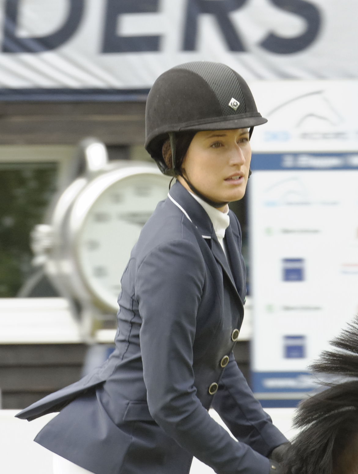 Internationales Pfingstturnier Wiesbaden 2013 The making of this document was supported by the Community-Budget of Wikimedia Germany.